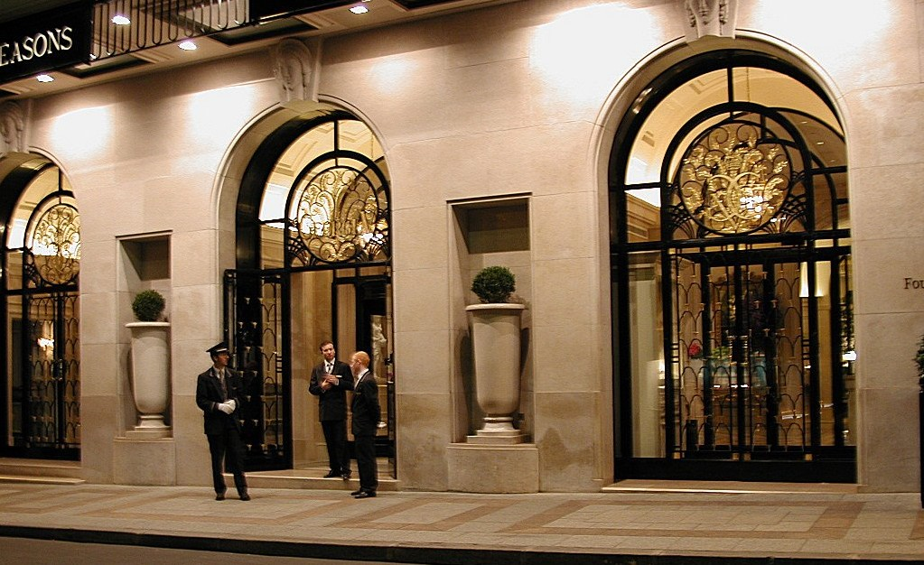 Four Seasons Hotel - George V, Paris